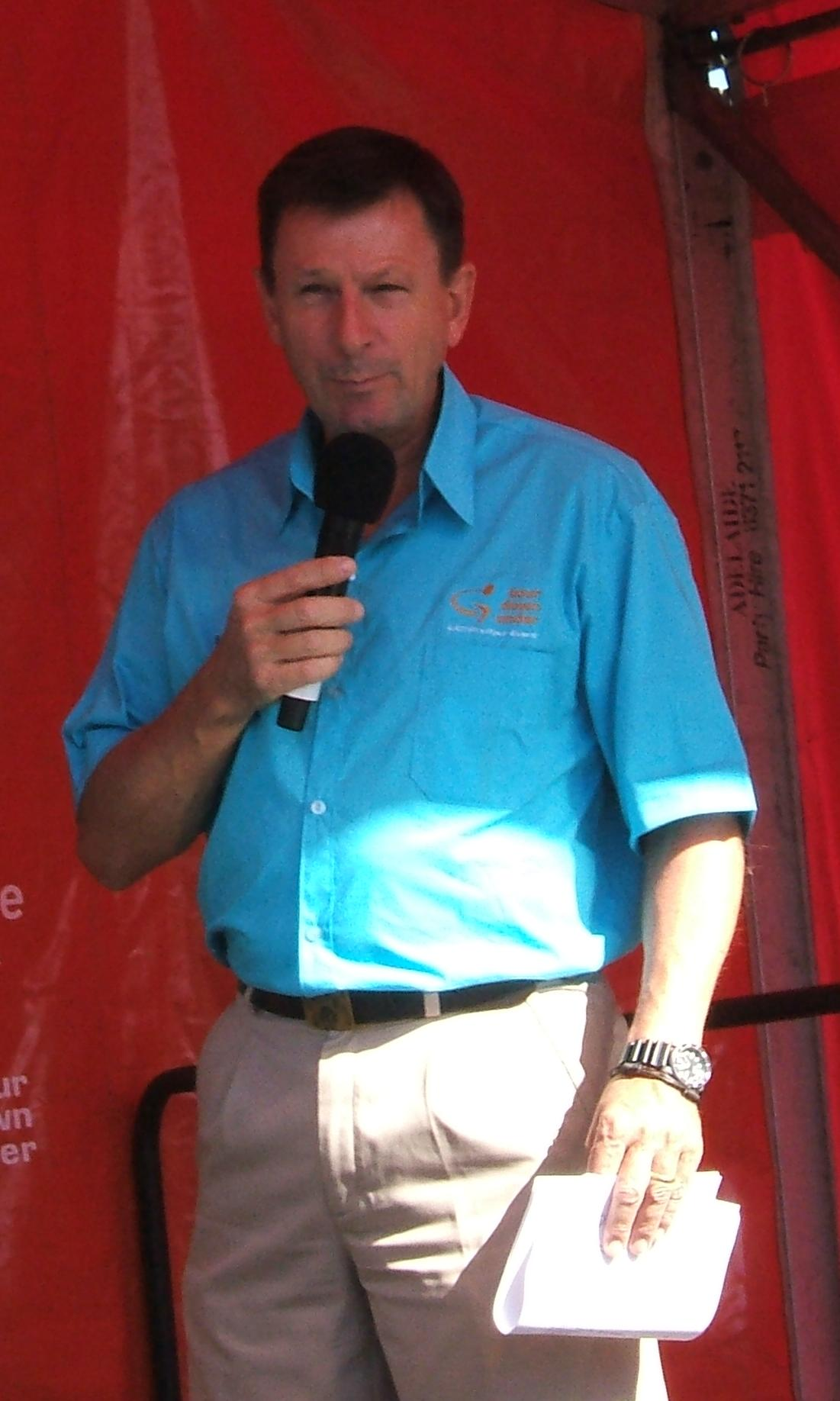 Named cyclist at the en:2009 Tour Down Under team presentation